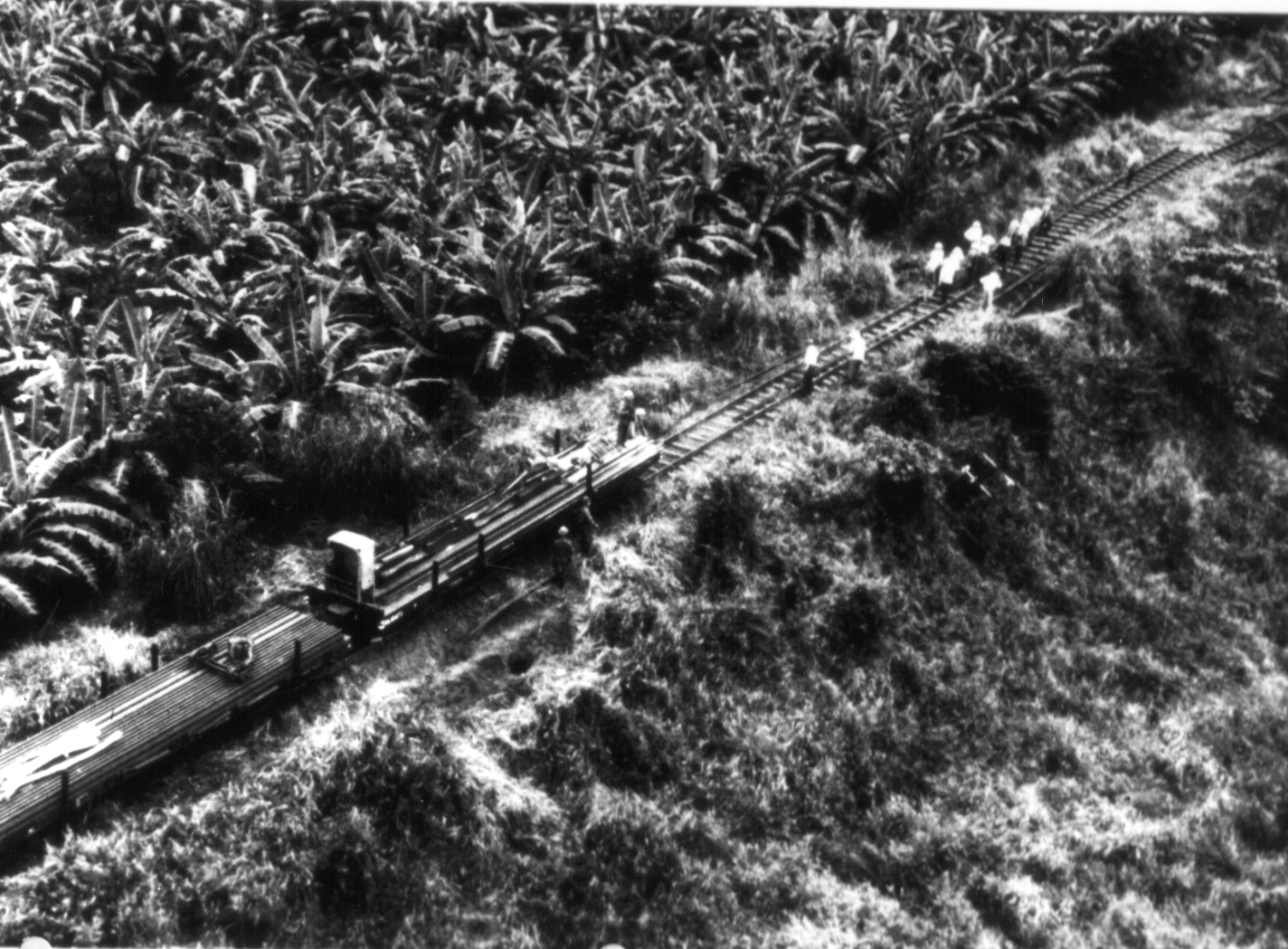 Aerial View Of Vietnam Railway Service Repair Crews Clearing Right Of Way And Installing New Track. Vietnam Studies: Logistic Support by Lieutenant General Joseph M. Heiser, Jr. (1991)